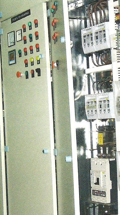 Proces Computer Equipments ATLAS.MAX. made by M.Pupin Institute Belgrade.Published in the book: IMP Riznica znanja ( V.Batanovic Ed),pp.21, IMP-PKS 2006.